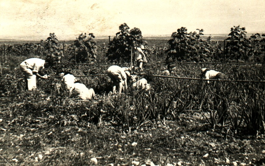 Child labor in the kibbutz was part of the education system. The children worked in their garden symbolically received wages for their produce.